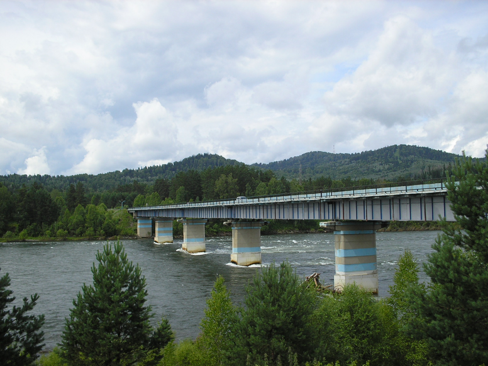 Bridge over the Biya River in Verkh-Biysk (Turochaksky District, Altai Republic, Russia)